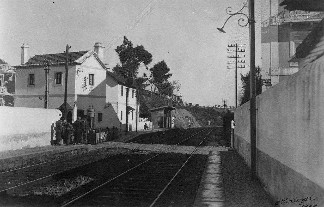 Caption recto bottom left in ink on photographic papermedium QS:P186,Q127418;P186,Q912760,P518,Q861259: Arieiro [Areeiro]pré-1911 Caption recto bottom right in ink on photographic papermedium QS:P186,Q127418;P186,Q912760,P518,Q861259: E. Portugal [Eduardo Portugal Portugal] Caption recto bottom right in ink on photographic papermedium QS:P186,Q127418;P186,Q912760,P518,Q861259: 1938 [1938 A.D.]